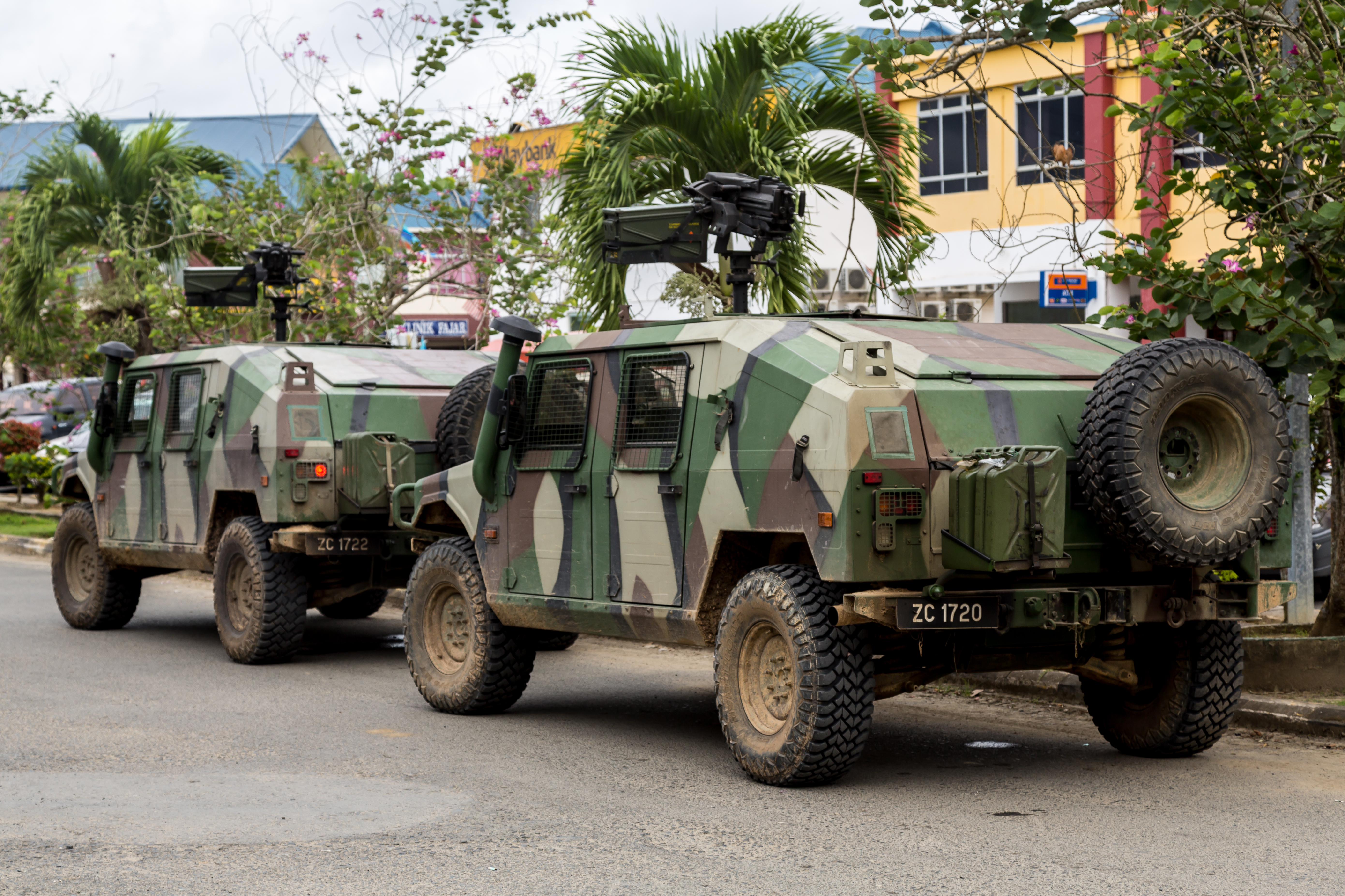 Cenderawasih, Tunku, Sabah: Military presence during Ops Daulat in Cenderawasih